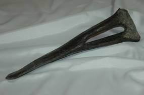 Chevron bone of a Diplodocus